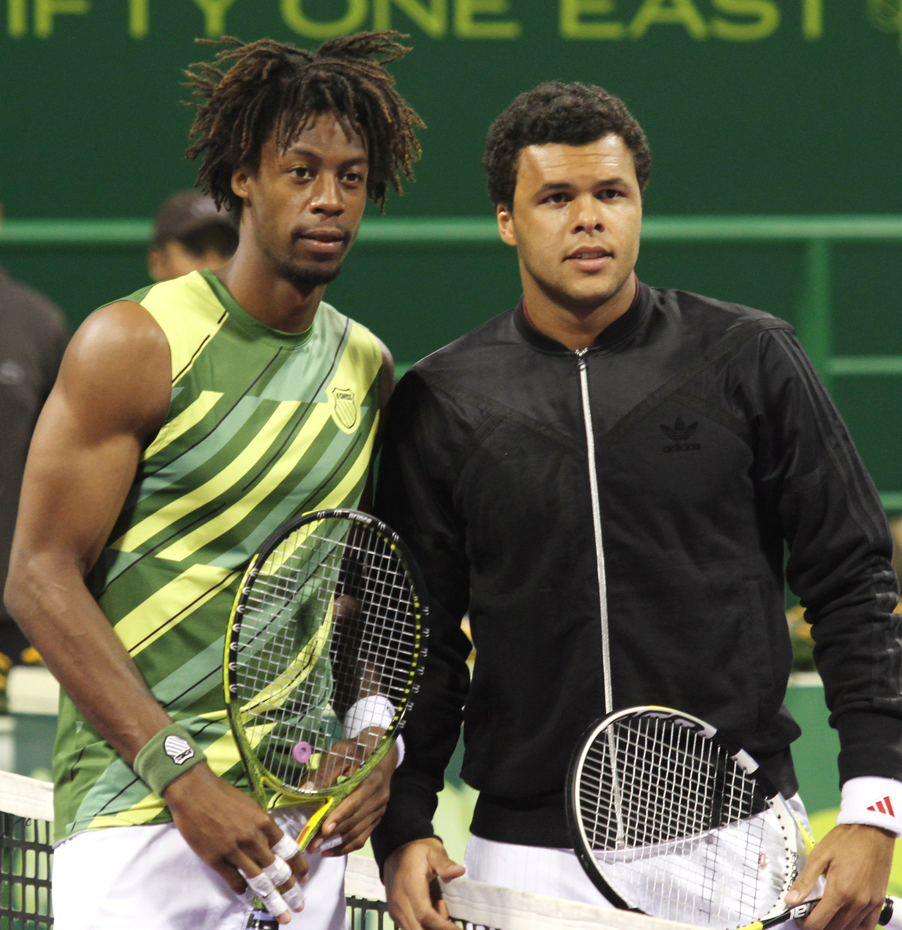 Frenchmen Gael Monfils, left, and Jo-Wilfried Tsonga prior to the start of the final of the Qatar Exxonmobil Open in Doha. Pic by Vinod Divakaran